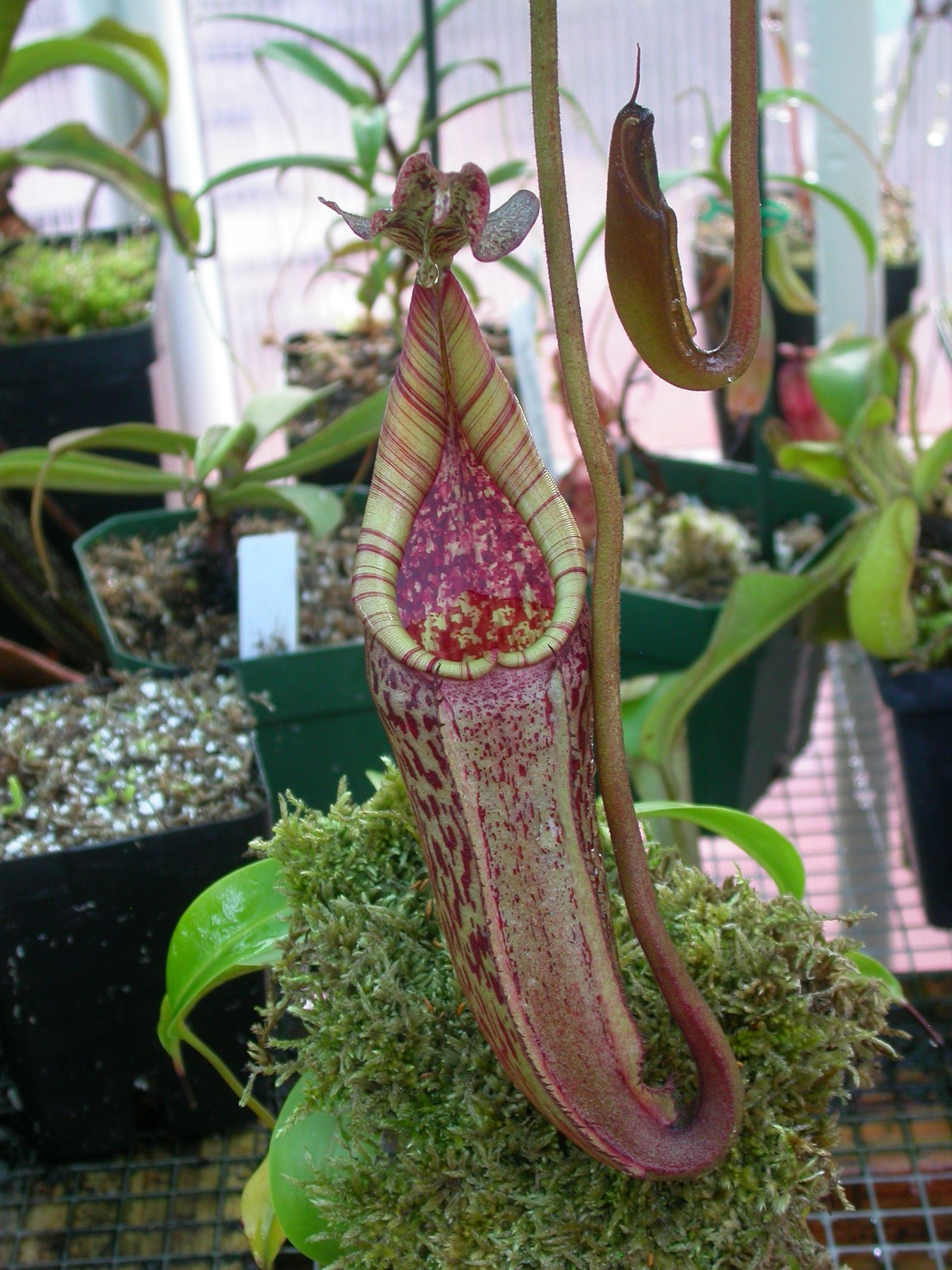 Cultivated Nepenthes eymae